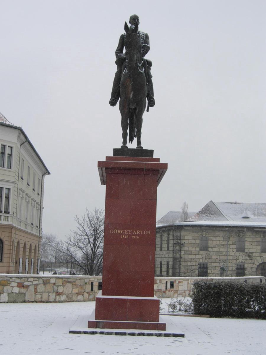 An image of the 1848 Hungary revolution leader statue of Artúr Görgey, taken in Budapest, Hungary.